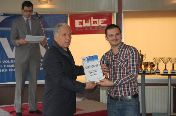 Trajneri i vitit